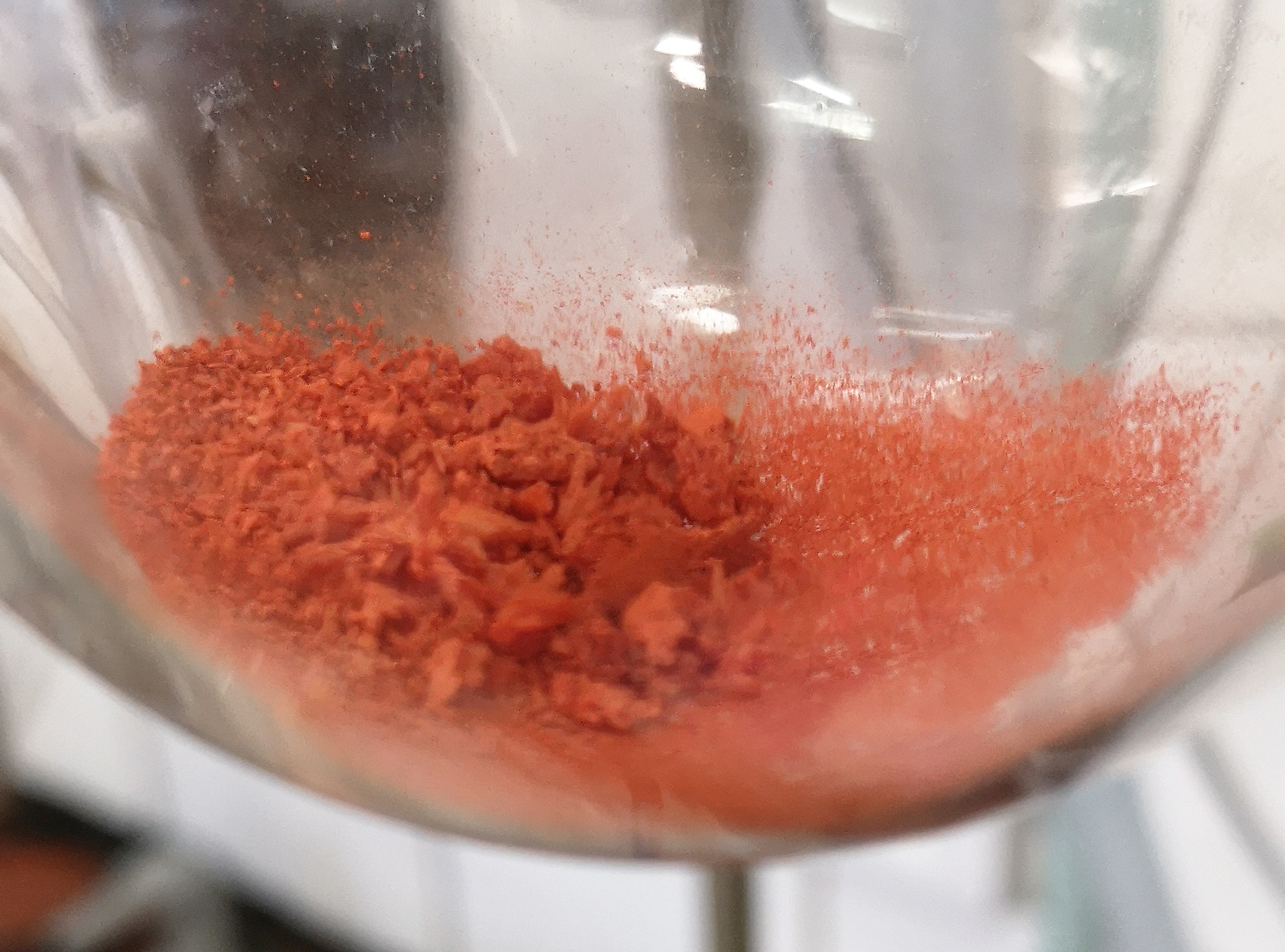 This is the compound [PPh3-CuH]6, synthesized from PPh3, Cu(OAc)2 and Ph2SiH2 in benzene. It is stored under protective nitrogen atmosphere.